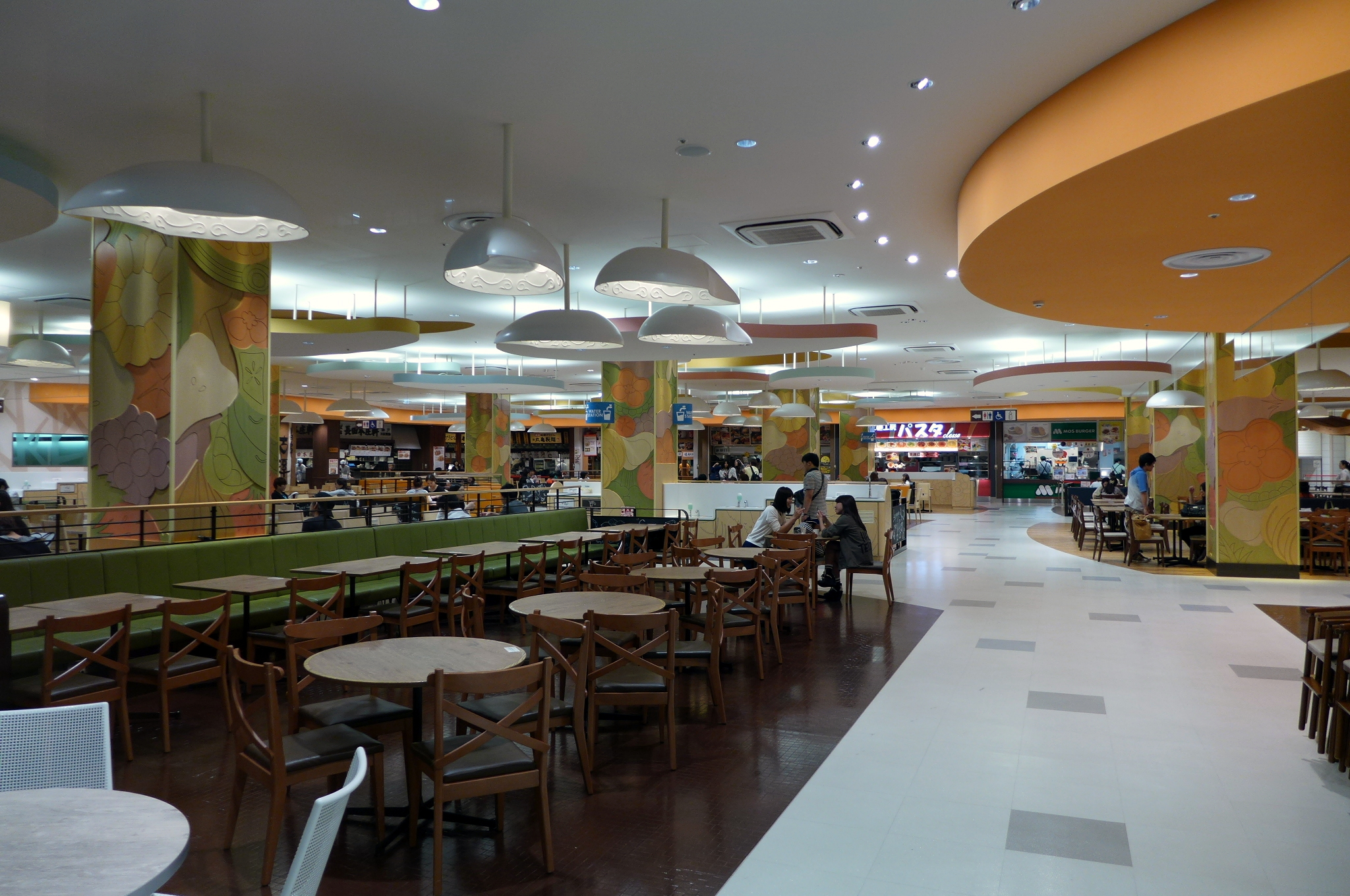 Abeno Cues Town food court